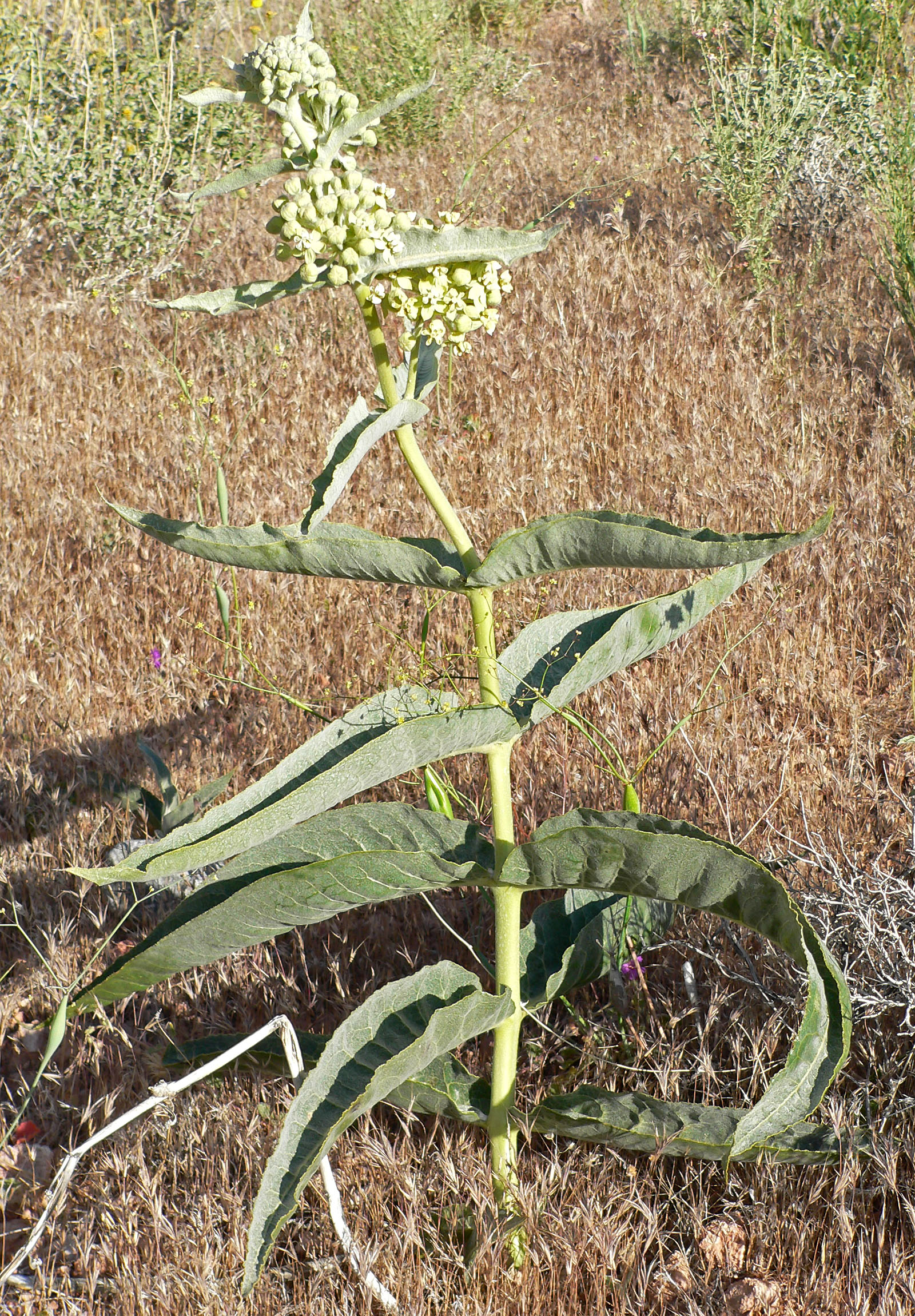 Asclepias erosa in Calico Basin, west of Las Vegas, Nevada